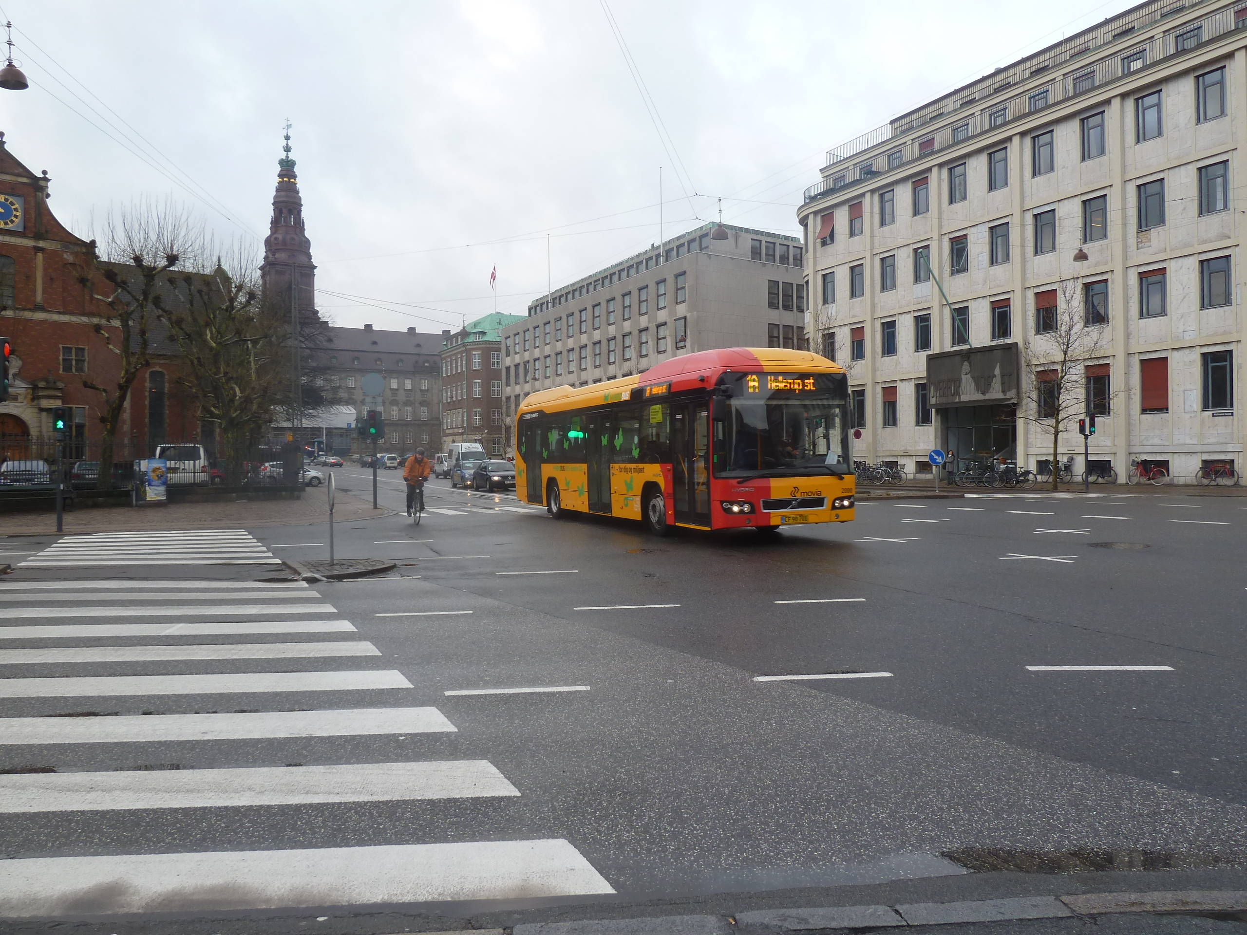 Hybridbus on Holmens Kanal in Copenhagen. In the background Christianborg Castle and at the left the church Holmens Kirke.